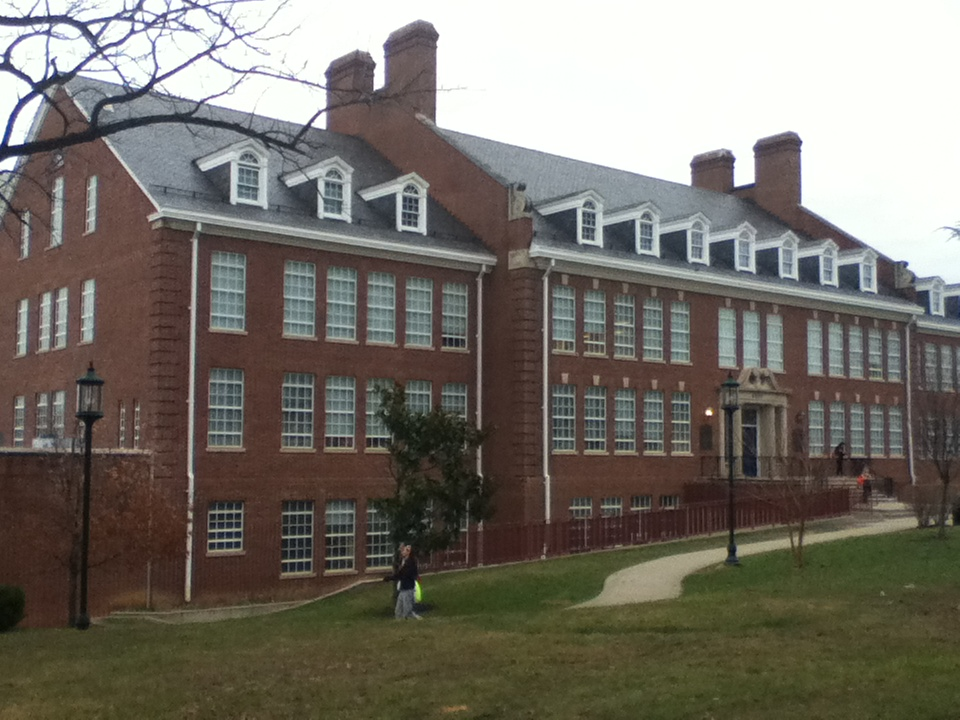 A view of BCC HS from East-West Highway.